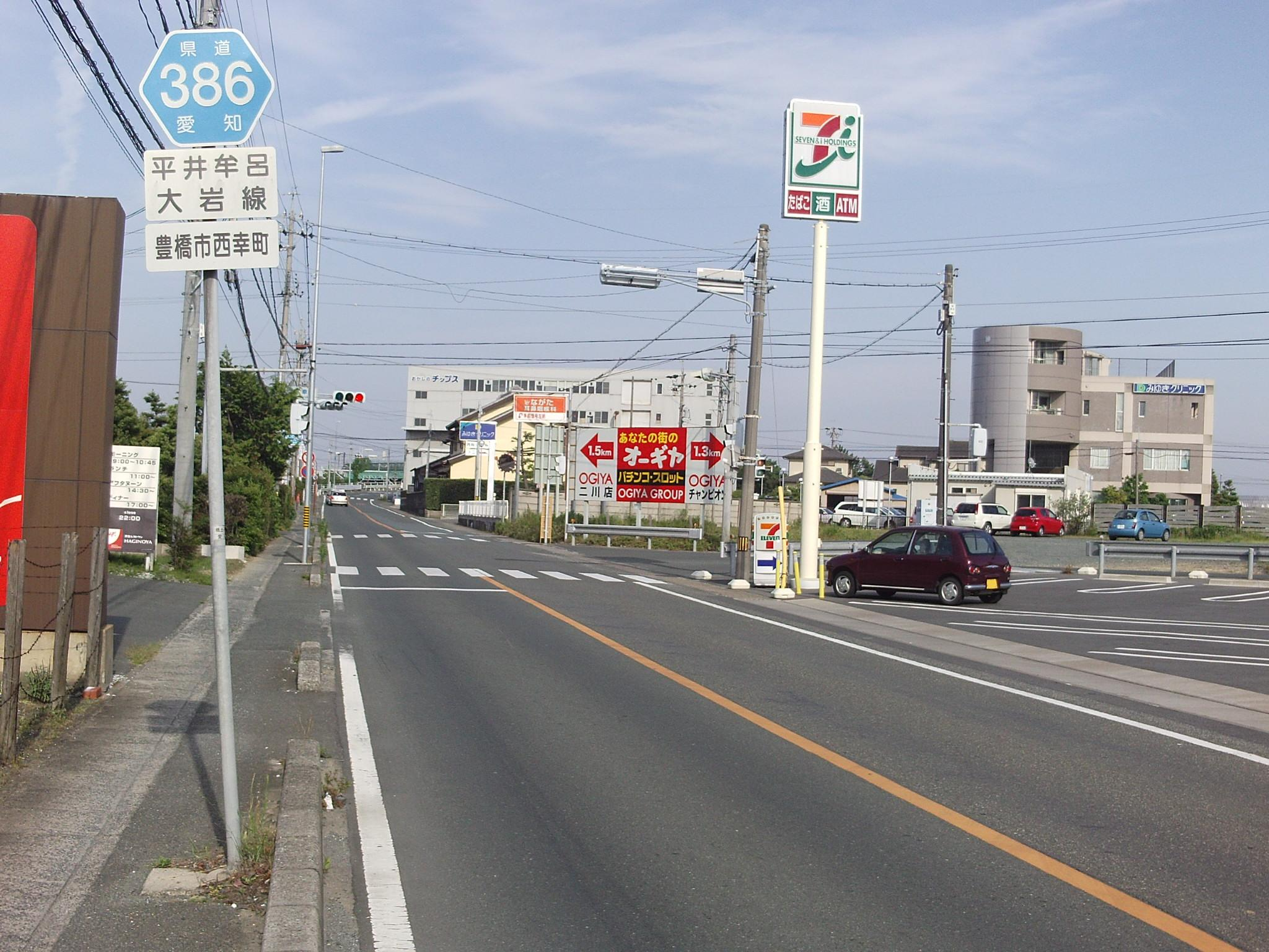 The Aichi Prefectural Road Route 386 in Nishimiyukicho, Toyohashi City